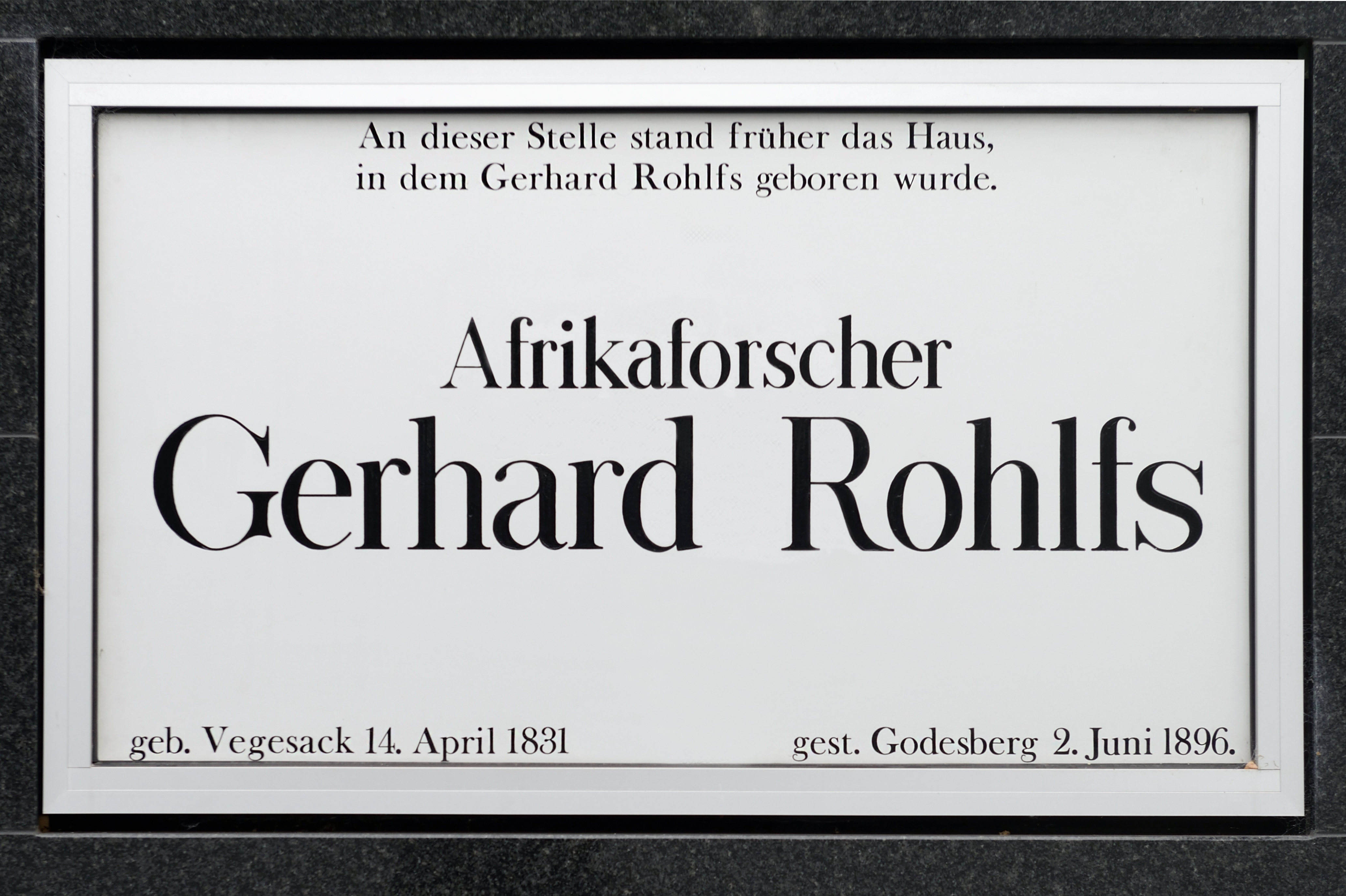 Plaque on the facade at 58, Gerhard-Rohlfs-street in Bremen-Vegesack, where the birthhouse of Friedrich Gerhard Rohlfs (1831-1896) was located.Deitsch: Gedenktafel an der Fassade des Gebäudes auf der Nr. 58 in der Gerhard-Rohlfs-Straße in Bremen-Vegesack, wo früher das Geburtshaus von Friedrich Gerhard Rohlfs (1831-1896) stand.